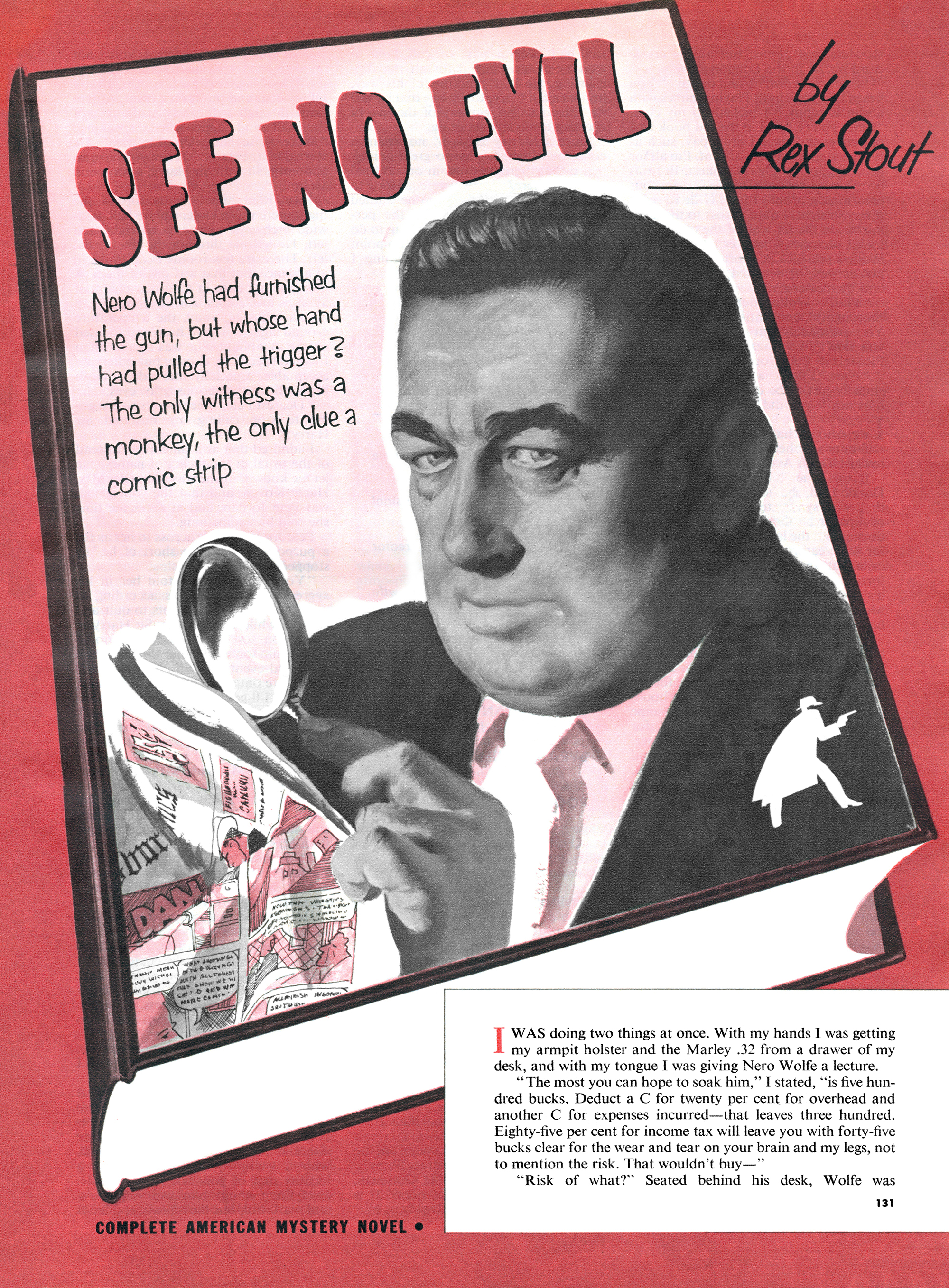 Lead illustration from The American Magazine printing of "The Squirt and the Monkey", a Nero Wolfe short story by Rex Stout that first appeared under the title "See No Evil"